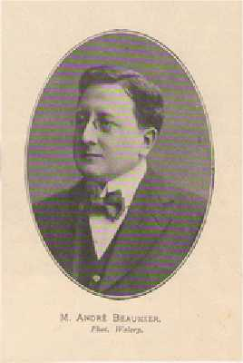 Portrait of André Beaunier